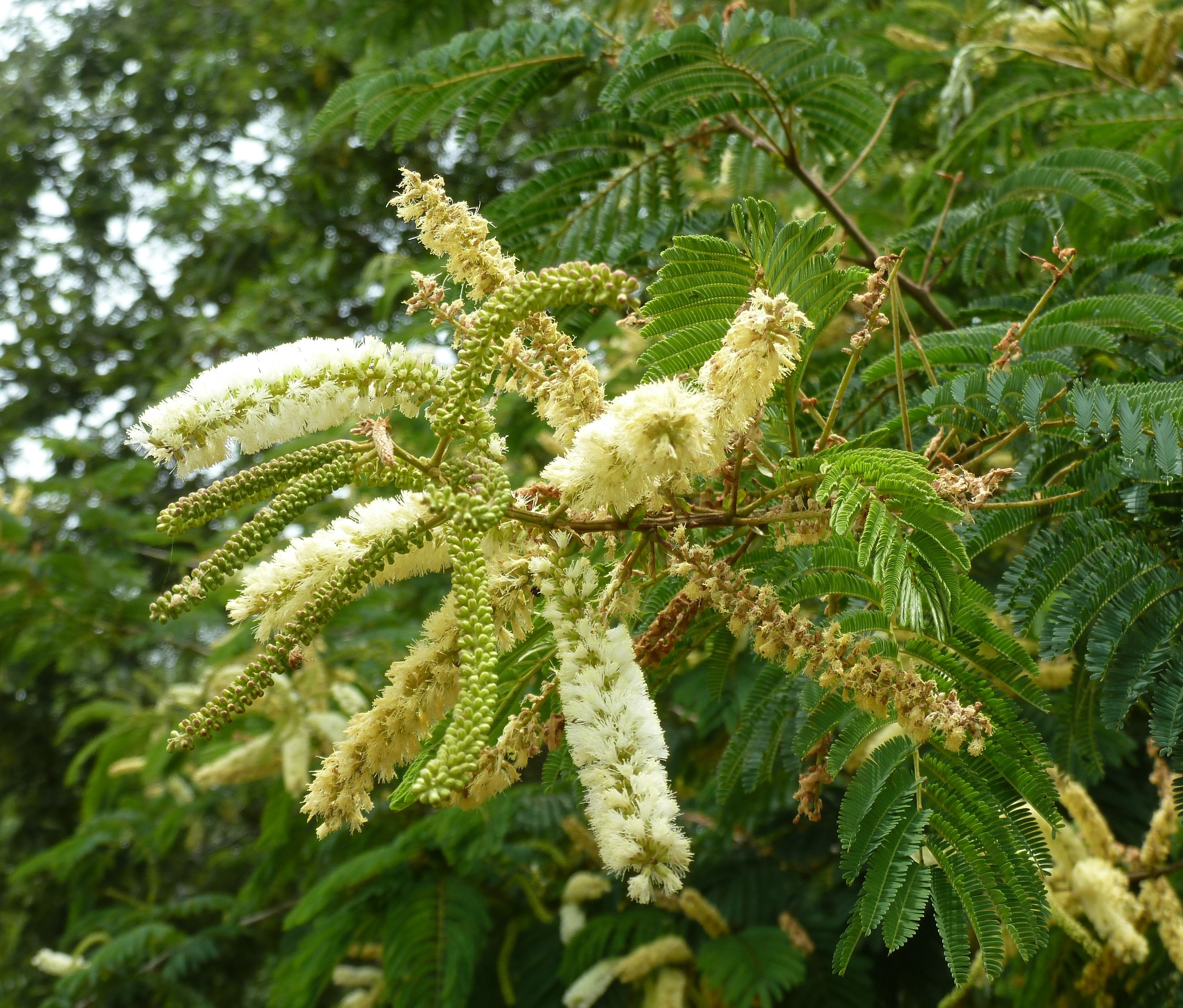 Inflorescences of a Flame thorn at Skeerpoort, on the southern slope of the Magaliesberg, South Africa